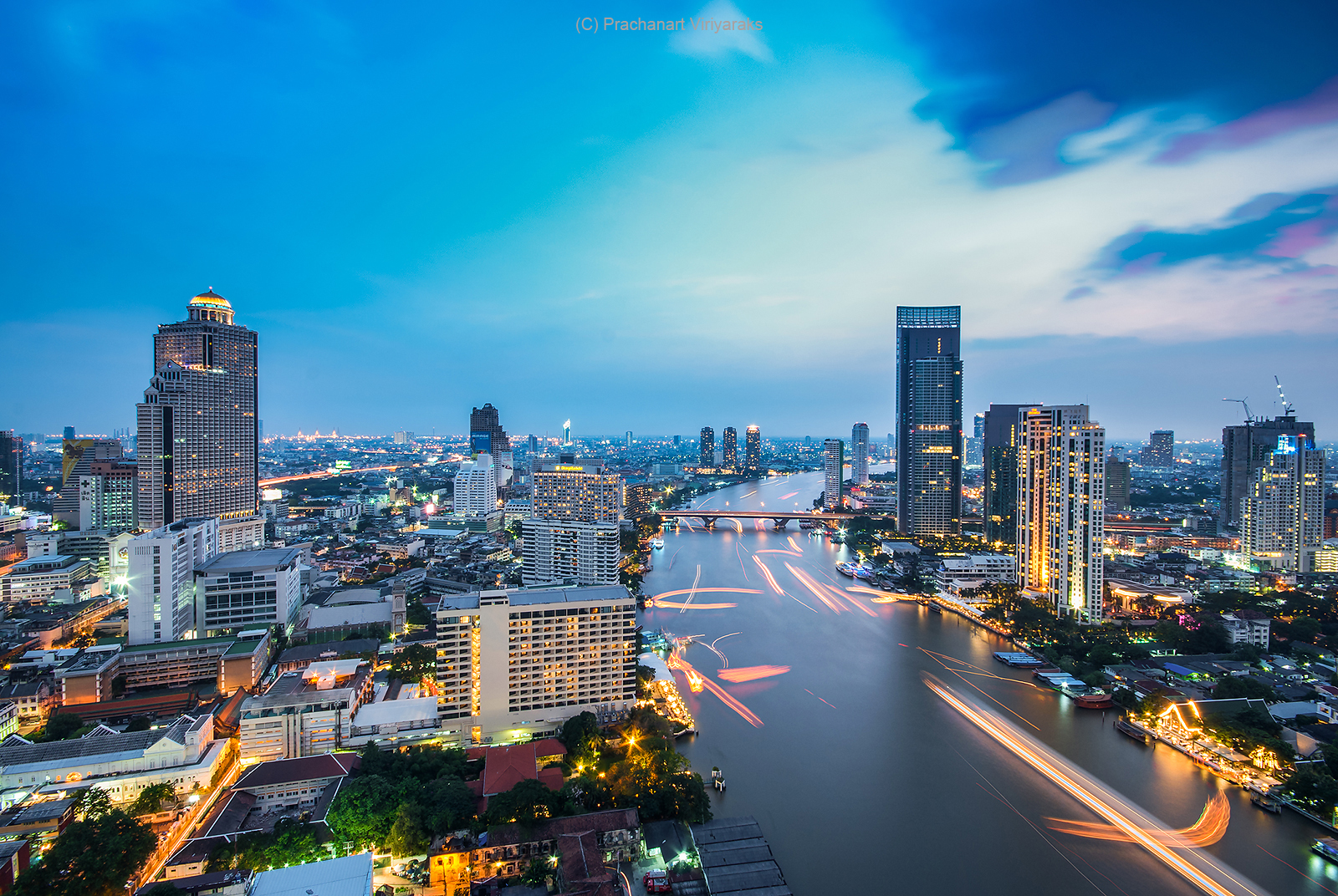 The Chao Phraya River in Bangkok, with the French Embassy, Oriental Hotel, State Tower, The River condominium, and Taksin Bridge